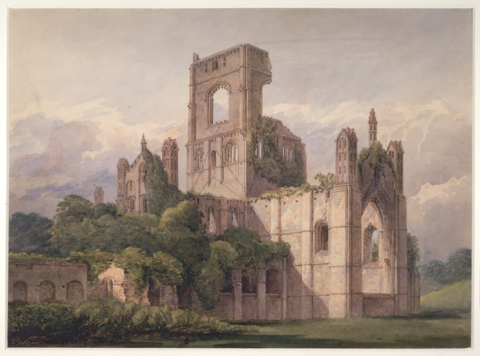 "Kirkstall Abbey, Yorkshire f.29,"